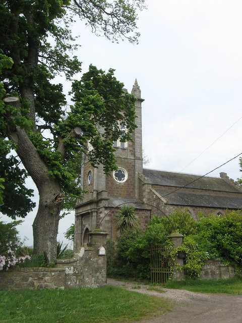 Kirk Tower House